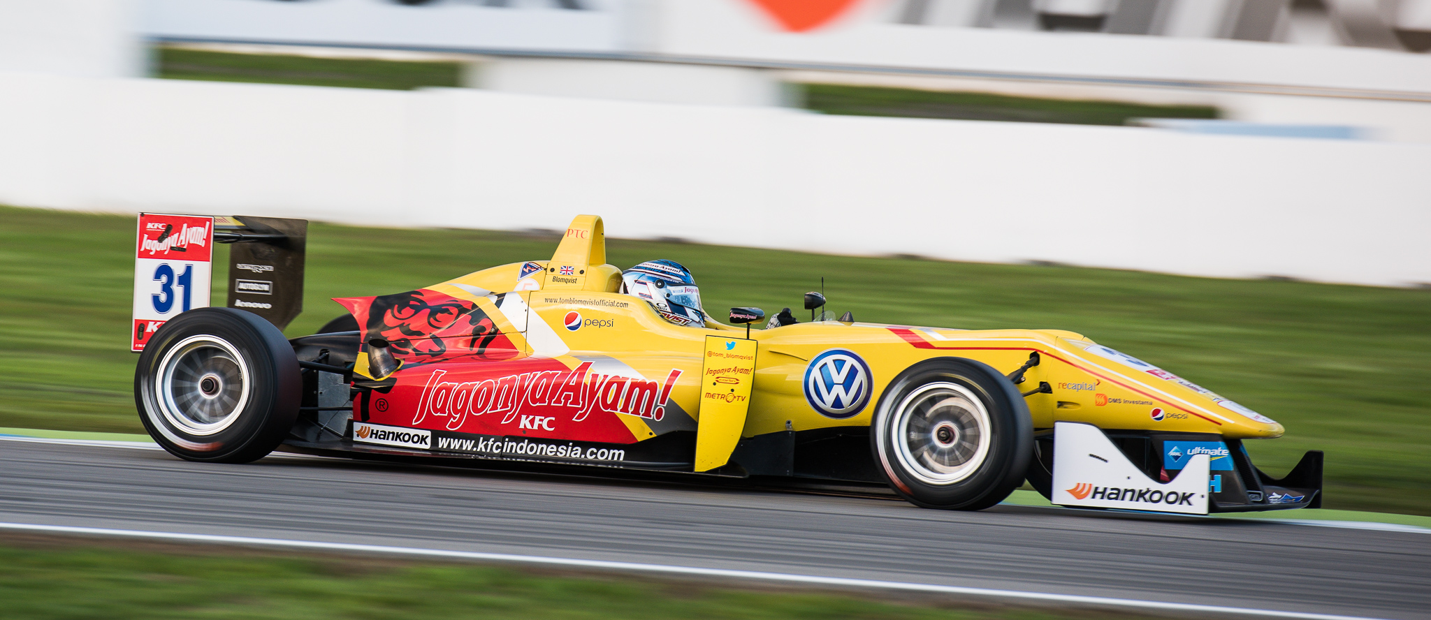 DTM,Dallara F312,Deutsche Tourenwagen Masters,F3 FIA European Championship,FIA Formel 3 Europameisterschaft,Hockenheimring,Jagonya Ayam with Carlin,Motorsport,Tom Blomqvist,Volkswagen